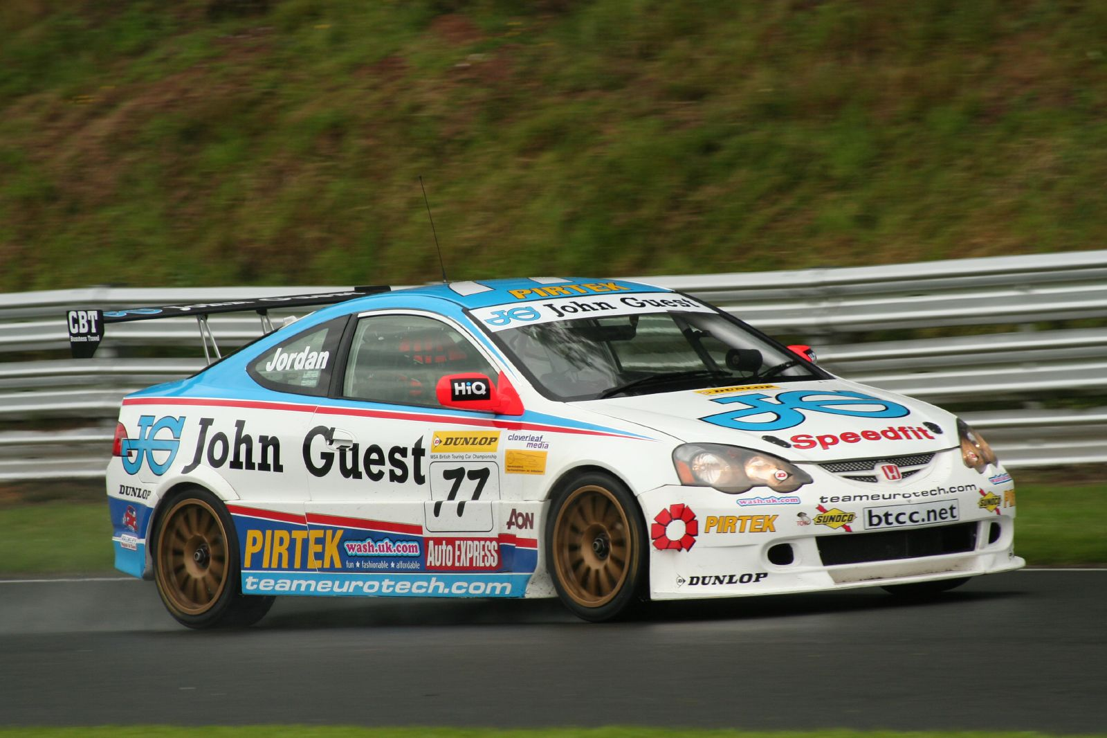 Mike Jordan driving for Honda at the Oulton Park round of the 2007 British Touring Car Championship.